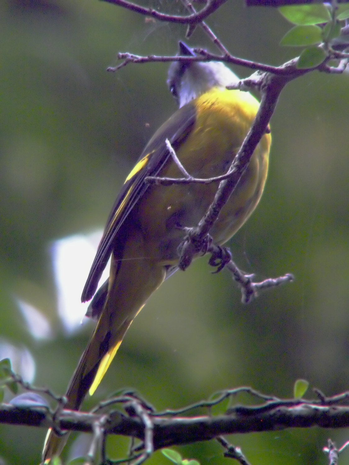 Grey-chinned Minivet (Pericrocotus solaris)